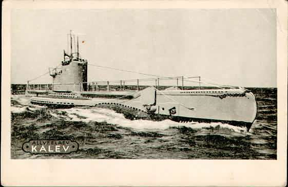 Estonian submarine Kalev